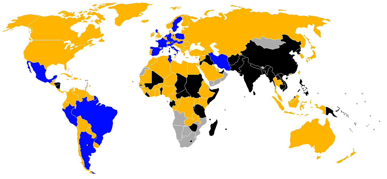 Status of countries with respect to 1978 FIFA World Cup: Qualified for World Cup finals Failed to qualify for World Cup finals Did not enter World Cup Not an associate member of FIFA